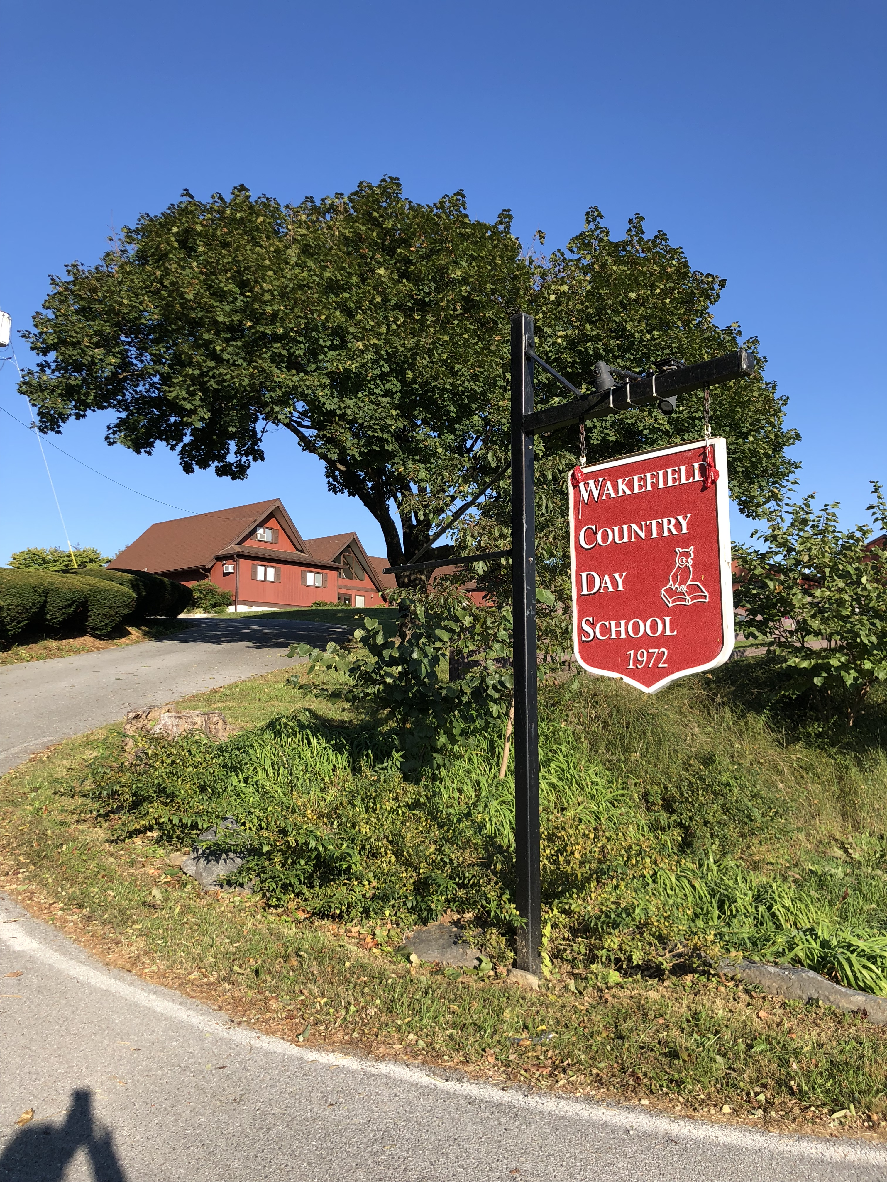 Author's own photograph.